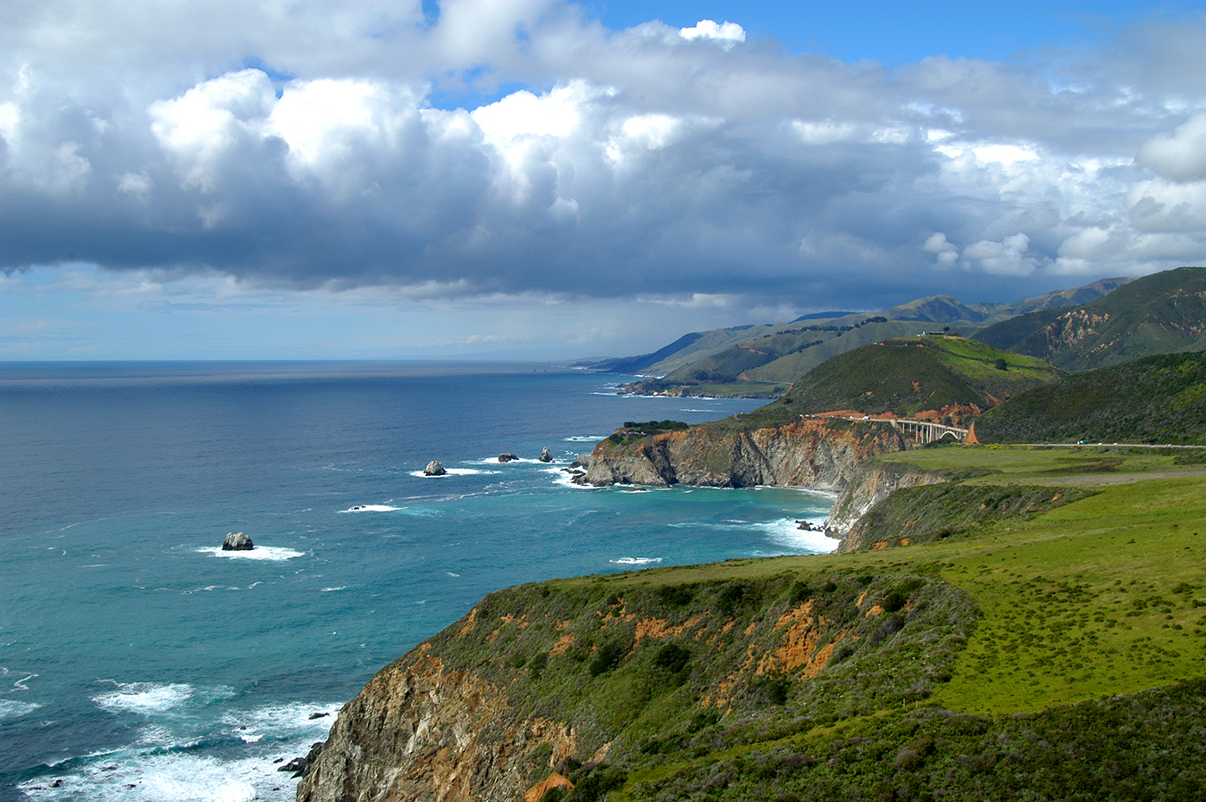 A northward view of the Big Sur coastline and Monterey Bay National Marine Santuary approximately 120 miles south of San Francisco, Calif. Bixby Creek Bridge, a popular landmark of this region, is visible in the distance. (Original source and more information: National Ocean Service Website)